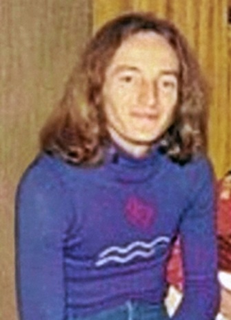 Duncan McGuire at The Record Plant, L.A. in September 1975